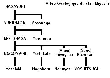 Tree of Miyoshi family